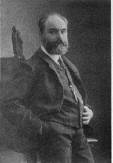 Composer Sergej Lyapunov